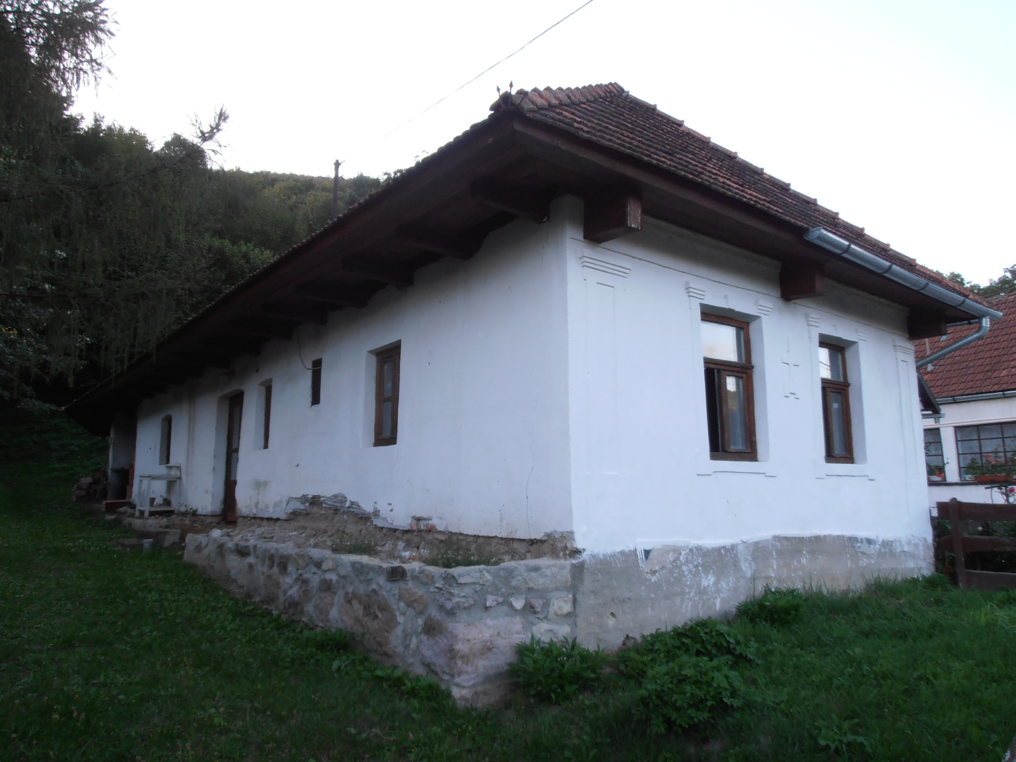 Old house in Kishuta, Hungary